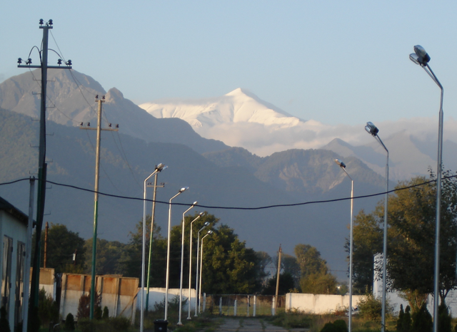 Bazardüzü Dagi, 4.485 m, is the tallest mountain of Azerbaijan